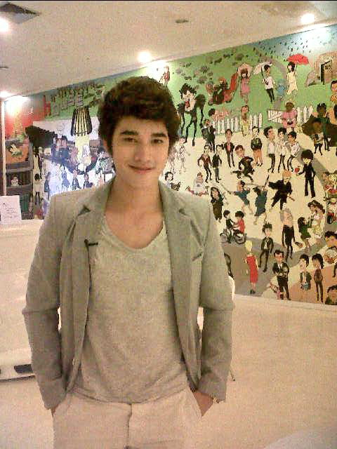 Mario Maurer after interviewing with MTV Thailand for a movie "First Love".